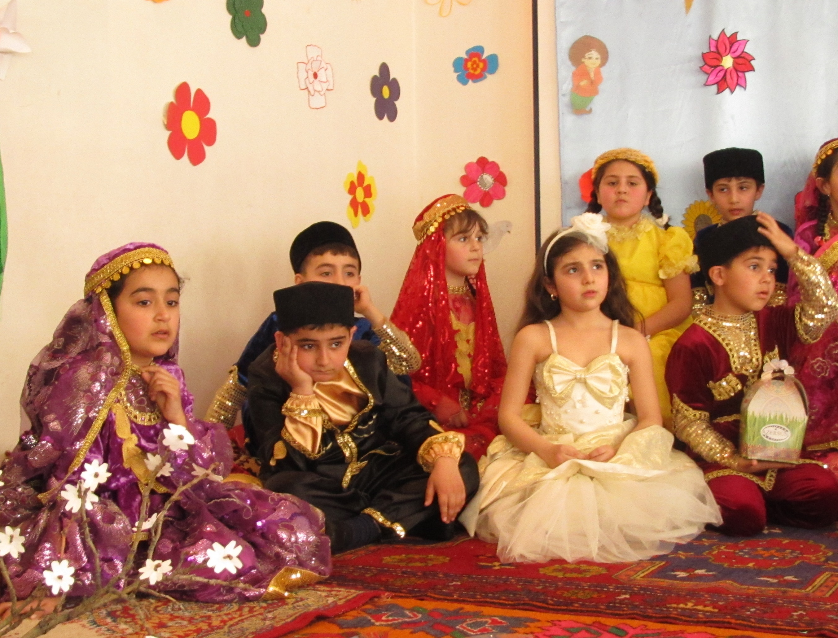 Thinking children on the holiday's stage. Azerbaijani children are celebrating Novruz Holiday.